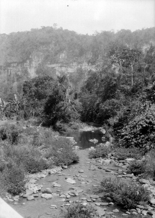 A brook near Maros